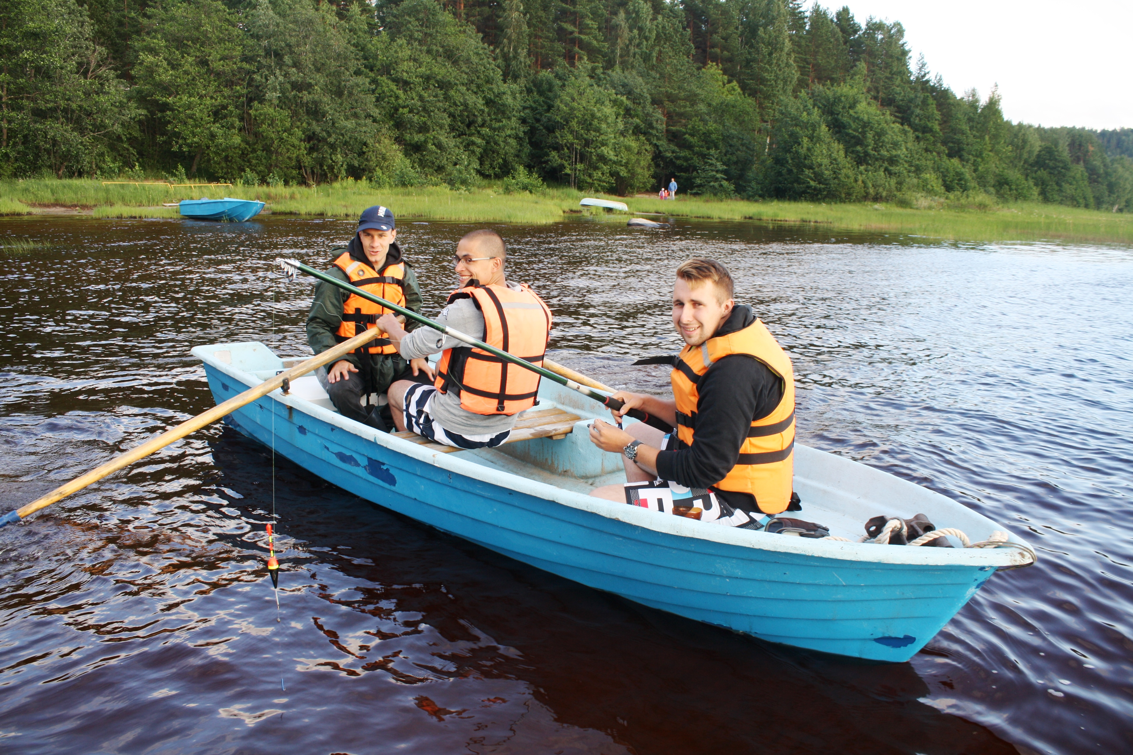 students of summer school of business and innovation PetrSU on "nano-fishing"